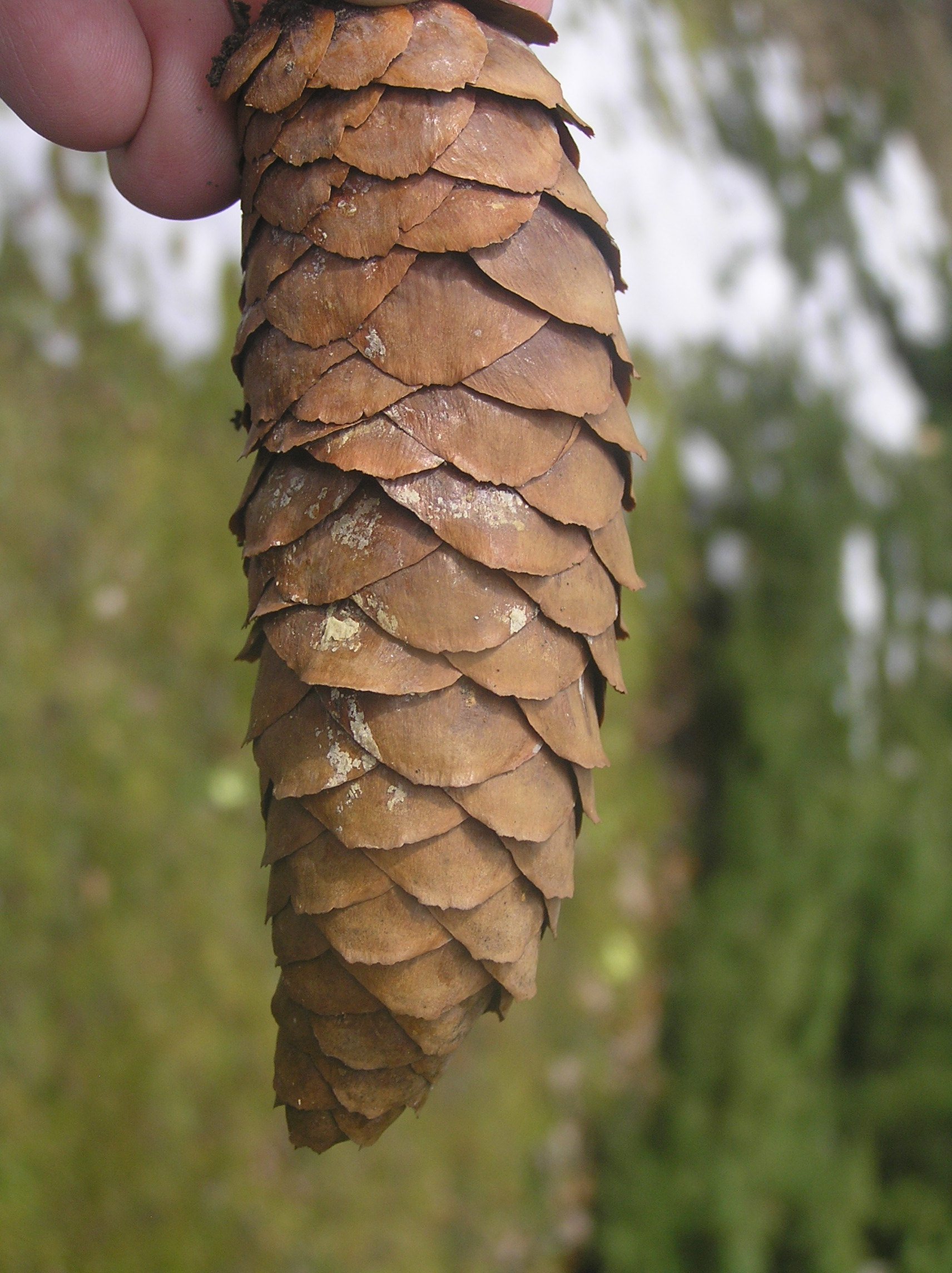 Picea torano, female cone, cultivated in Brno, Czech Republic